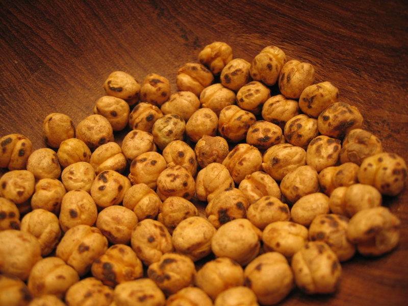 Leblebi is a kind of snack made from roasted chickpeas.